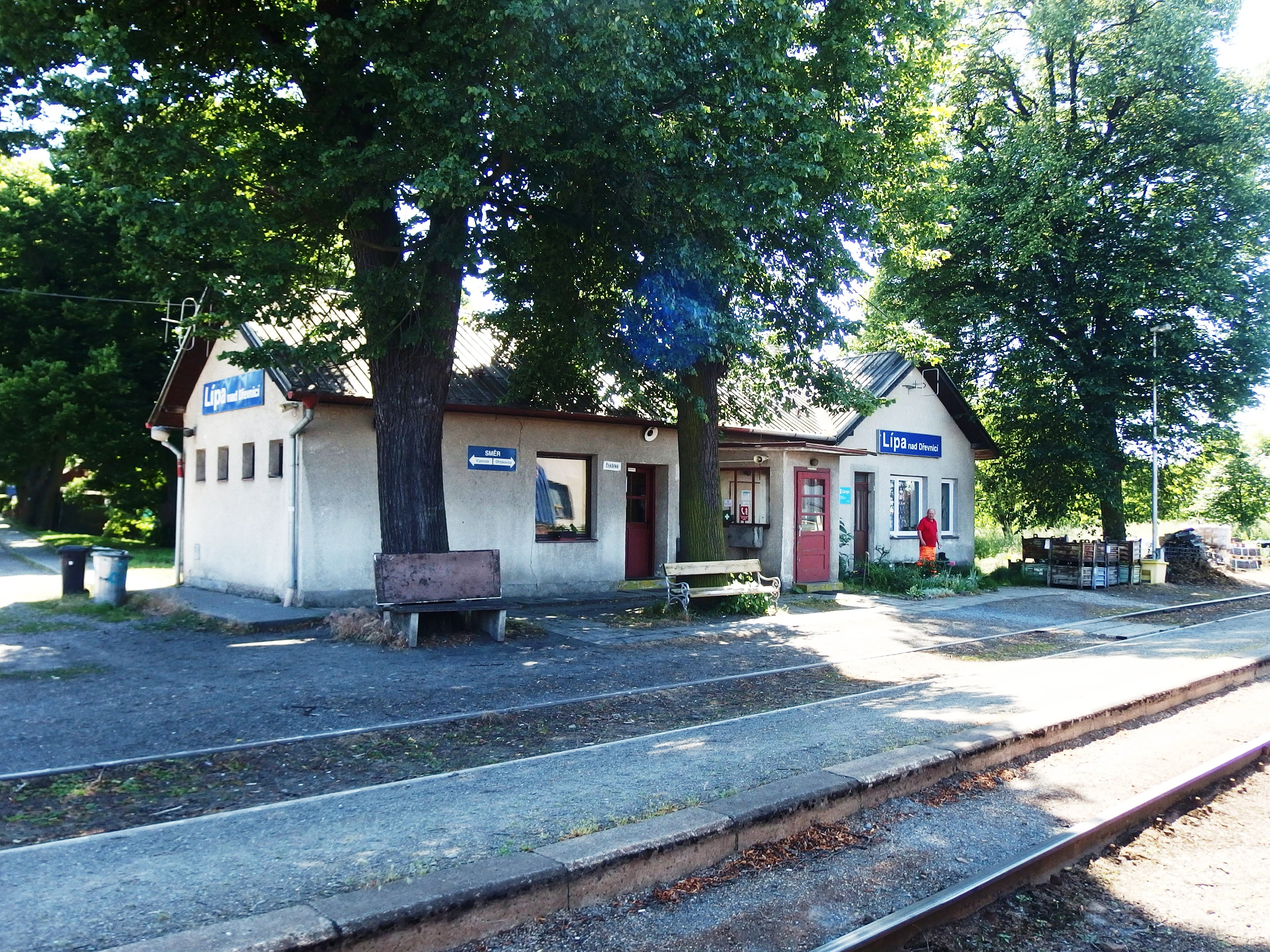 Lípa, Zlín District, Czech Republic.